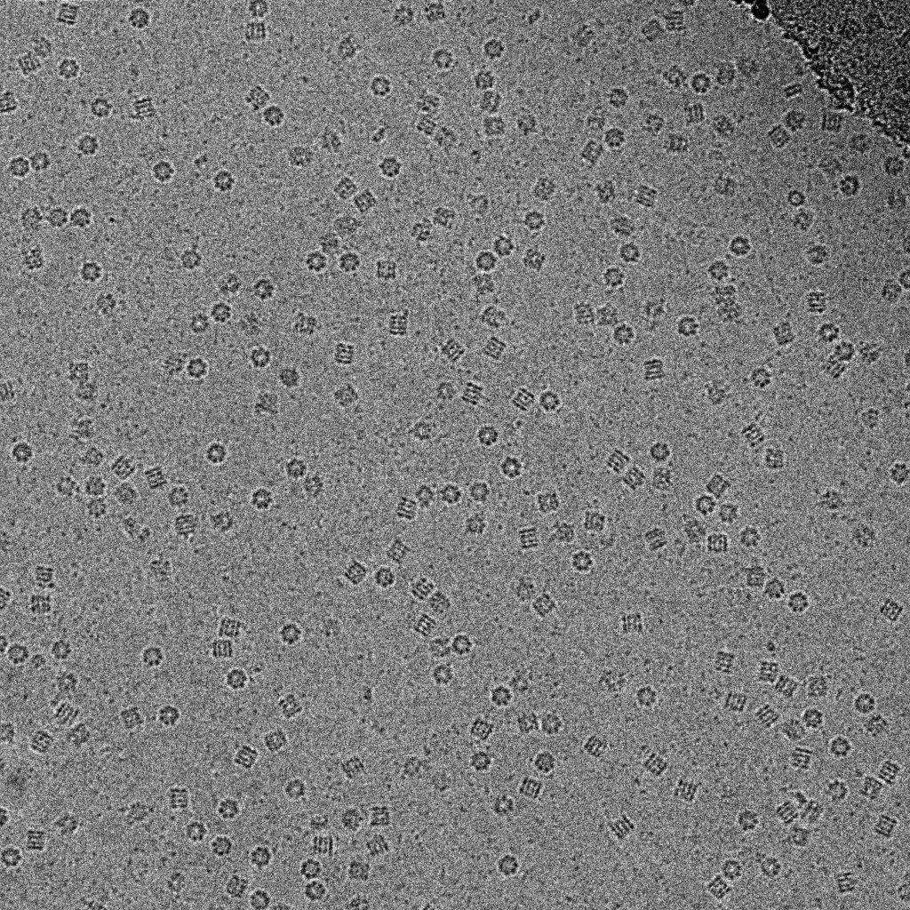 Electron microscope image of GroEL particle in vitreous ice